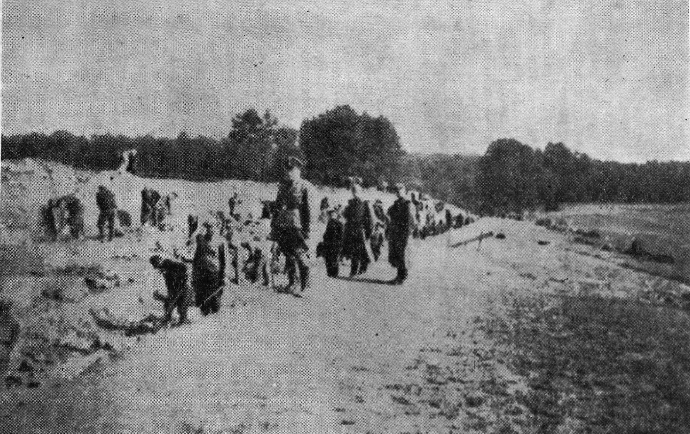 Forced laborers at Nazi work camp in Belzec building fortifications against Soviet Union